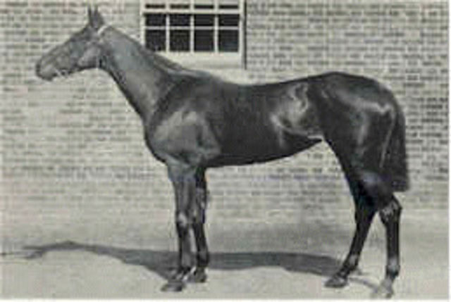 Photograph of British racehorse La Fleche. c.1892. Unknown author.